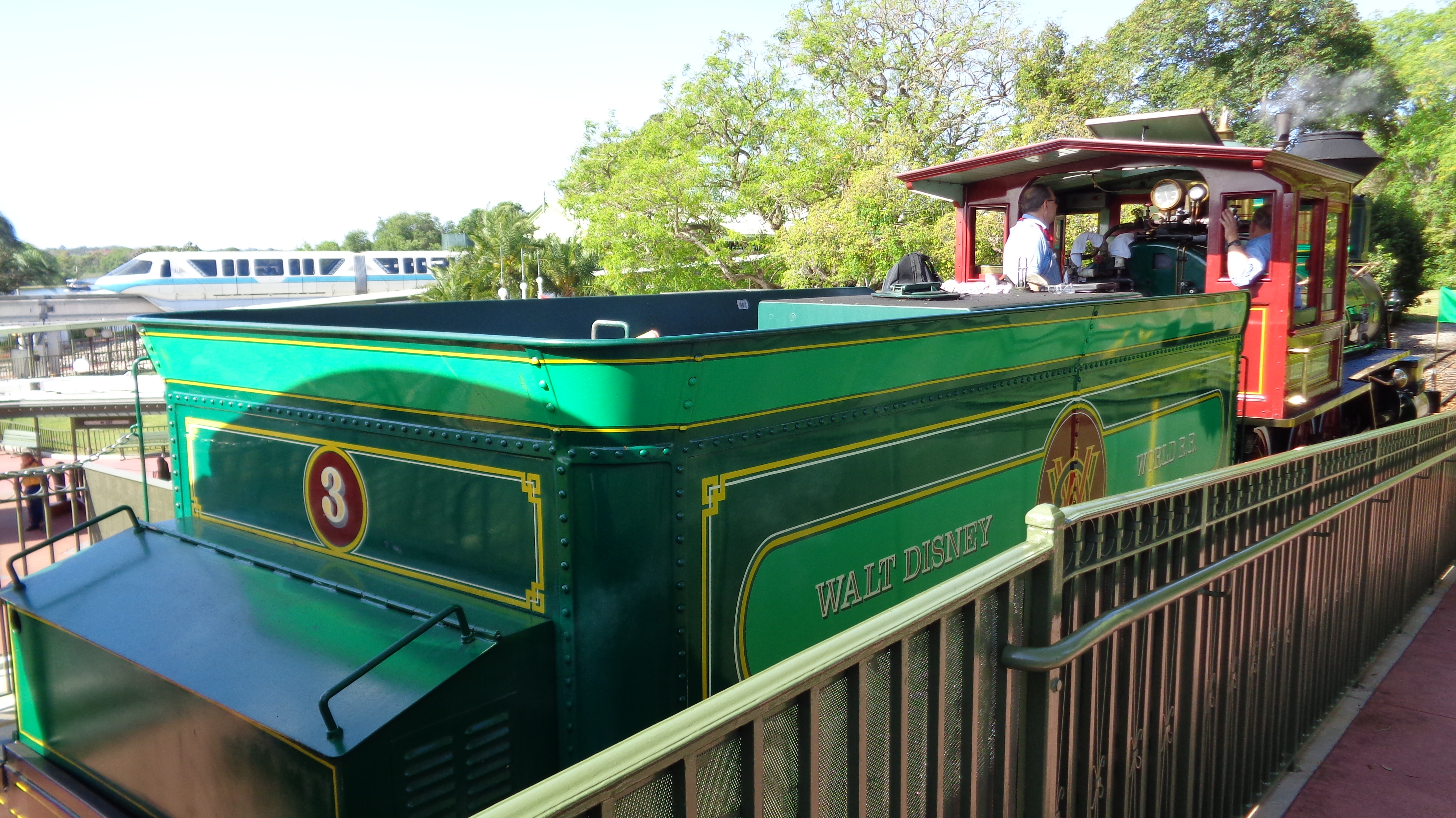 The Walt Disney World Railroad (foreground) and the Walt Disney World Monorail System (background).